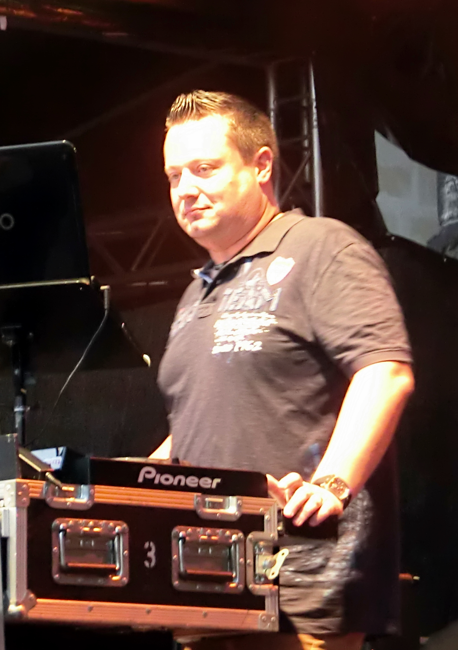 Josh Kochhann, radio and club DJ from Germany